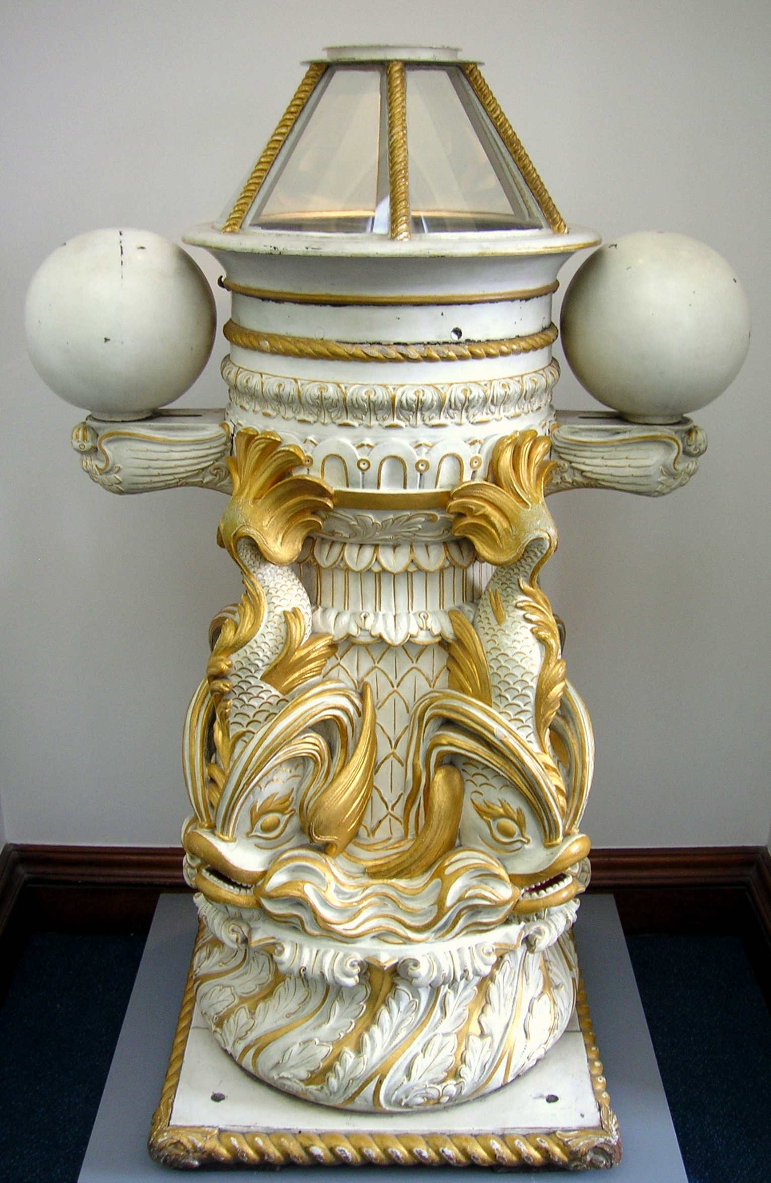 Binnacle (ie casing protecting a ship's compass) from the royal yacht Victoria and Albert III, 1899.